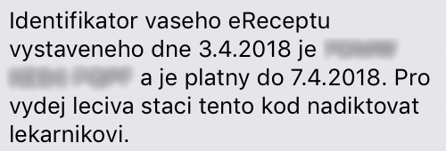 SMS format of eRecept.